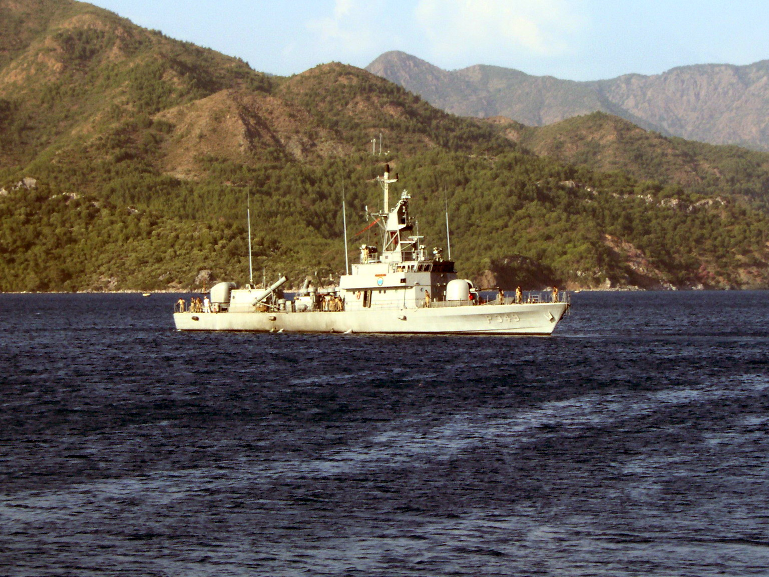 Turkish patrol boat P-349 Karayel